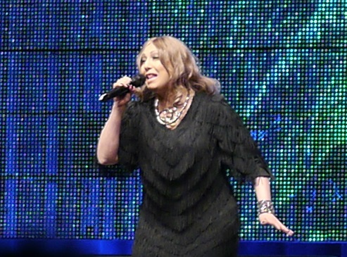 Origa performing in 2013